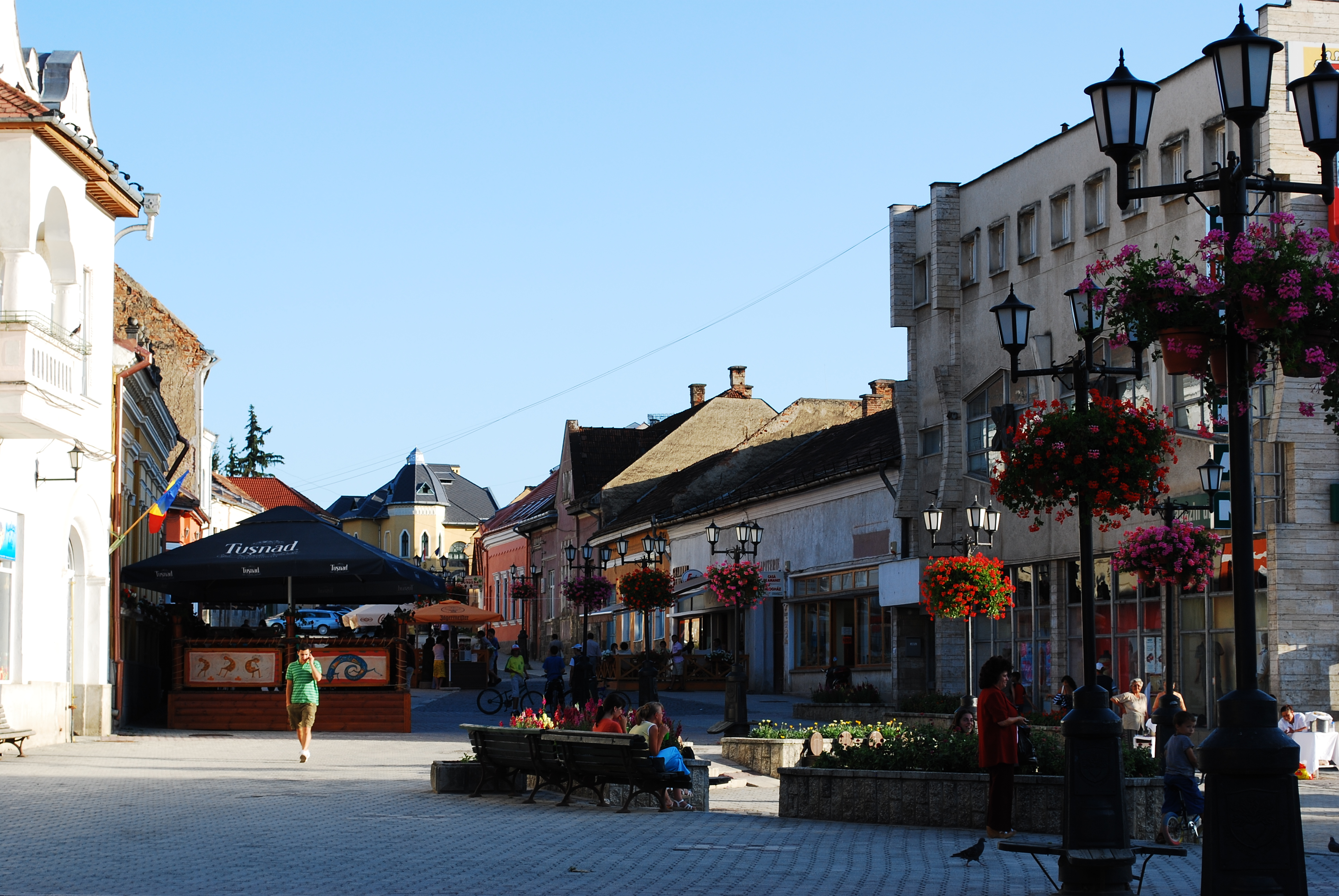 Buildings in the historic center of Miercurea Ciuc, Harghita County, Romania